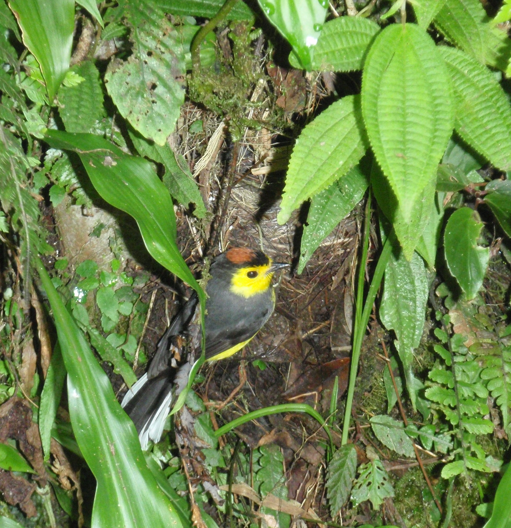 A Collared Redstart at its nest in Monteverde, Costa Rica.